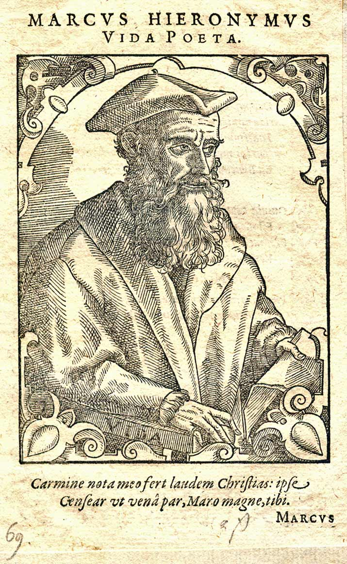 Marco Girolamo Vida (1485-1566), humanist, bishop and poet.